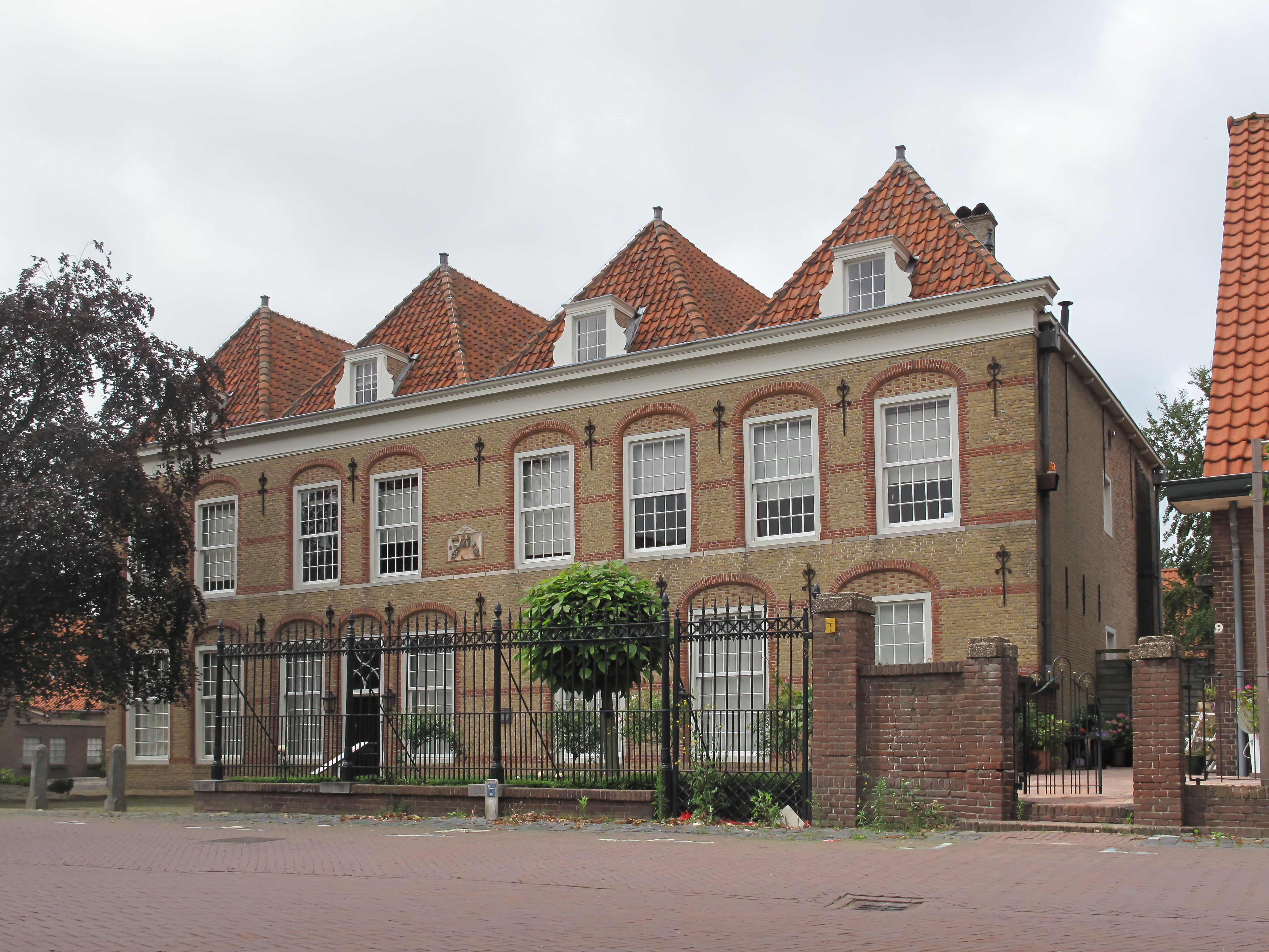 Brielle, former orphans' home in monumental building